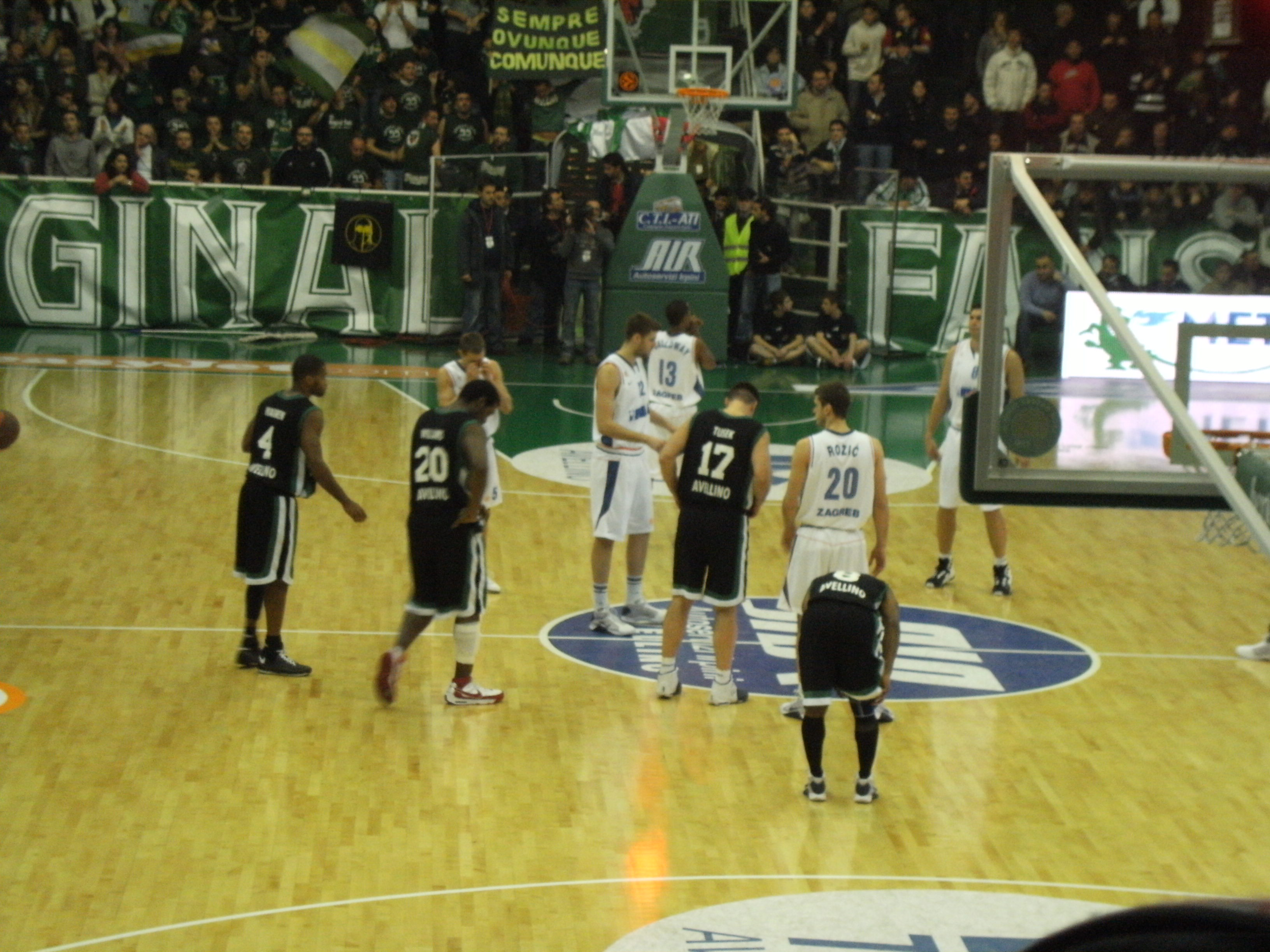 Felice Scandone Basket Avellino - Euroleague Basketball